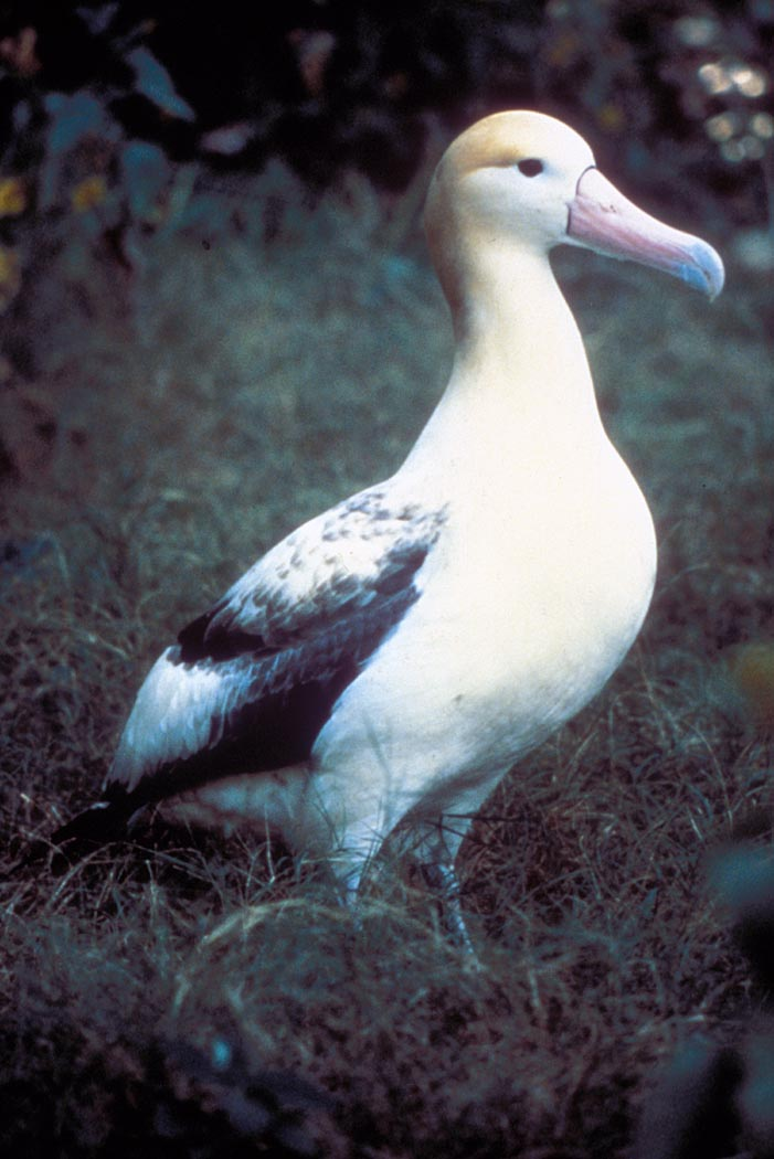 Short-tailed Albatross (Diomedea albatrus)